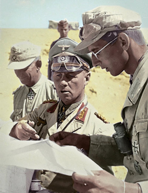 Field Marshal Erwin Rommel, Commander of the German forces in North Africa, with his aides during the desert campaign. 1942Depicted place North AfricaDate 1942 springCollection German Federal Archives Native nameDas BundesarchivLocationKoblenz (headquarters)Coordinates50° 20′ 32.71″ N, 7° 34′ 21.22″ E Established1946Web page control : Q685753 VIAF: 137346469 ISNI: 0000 0004 0555 2728 LCCN: n92025526 NLA: 36455393 Open Library: OL55798A WorldCat institution QS:P195,Q685753Accession number Bild 101I-785-0287-08 Source This image was provided to Wikimedia Commons by the German Federal Archive (Deutsches Bundesarchiv) as part of a cooperation project. The German Federal Archive guarantees an authentic representation only using the originals (negative and/or positive), resp. the digitalization of the originals as provided by the Digital Image Archive. „Nordafrika.- Generaloberst Erwin Rommel mit Offizieren seines Stabes bei einer Lagebesprechung, links Oberst Eduard Crasemann; Jan.-Juni 1942; PK "Afrika"“ Information added by Wikimedia users.Abgebildete Personen: Rommel, Erwin: Generalfeldmarschall, Ritterkreuz (RK), Heer, Deutschland GND 118602446 Crasemann, Eduard, Generalmajor, Ritterkreuz (RK), Heer, Deutschland